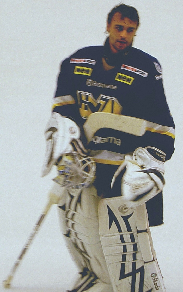 Ice hockey goalkeeper Stefan Liv, HV71.